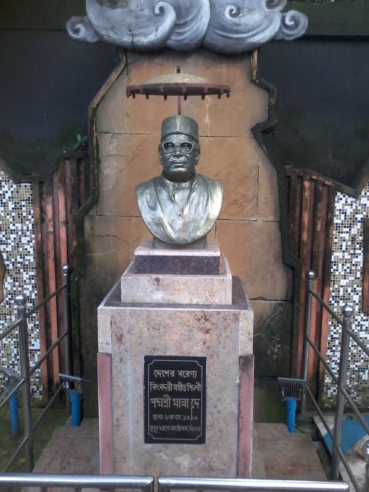 Legendary Musician and Singer Manna De